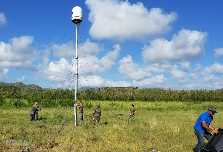 Restoring Infrastructure to Puerto Rico: Two temporary DOD radars stand watch over Puerto Rico and the U.S. Virgin Islands, improving public safety as the islands continue to recover from Hurricane Maria. (NOAA)